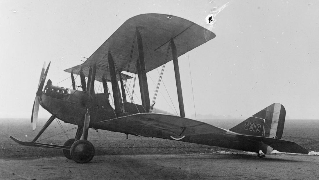 Photo of Armstrong Whitworth F.K.3 samf4u Courtesy of 1000aircraftphotos.jpg